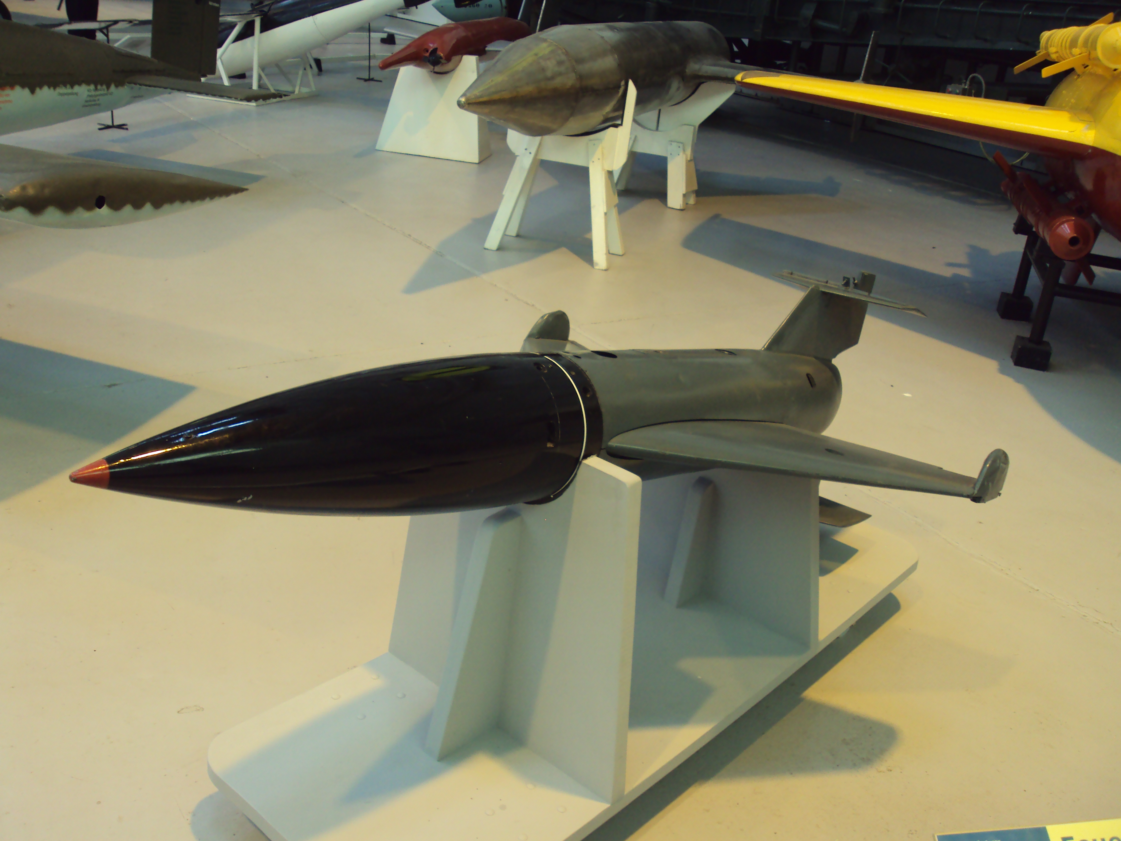 Photo of missile taken at the RAF Museum Cosford, Shropshire, England.